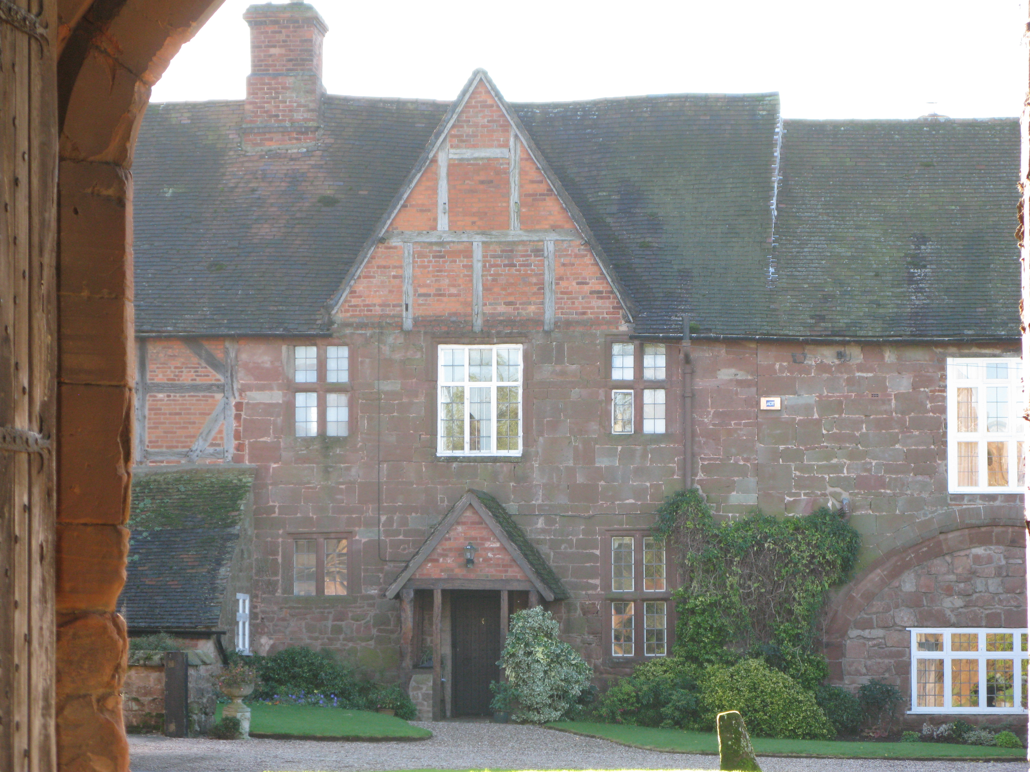 Maxstoke Priory farmhouse. Grade II* listed